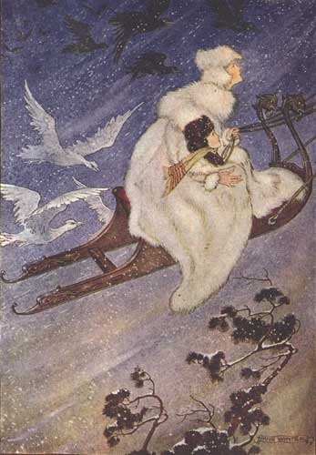 The Snow Queen Illustration.